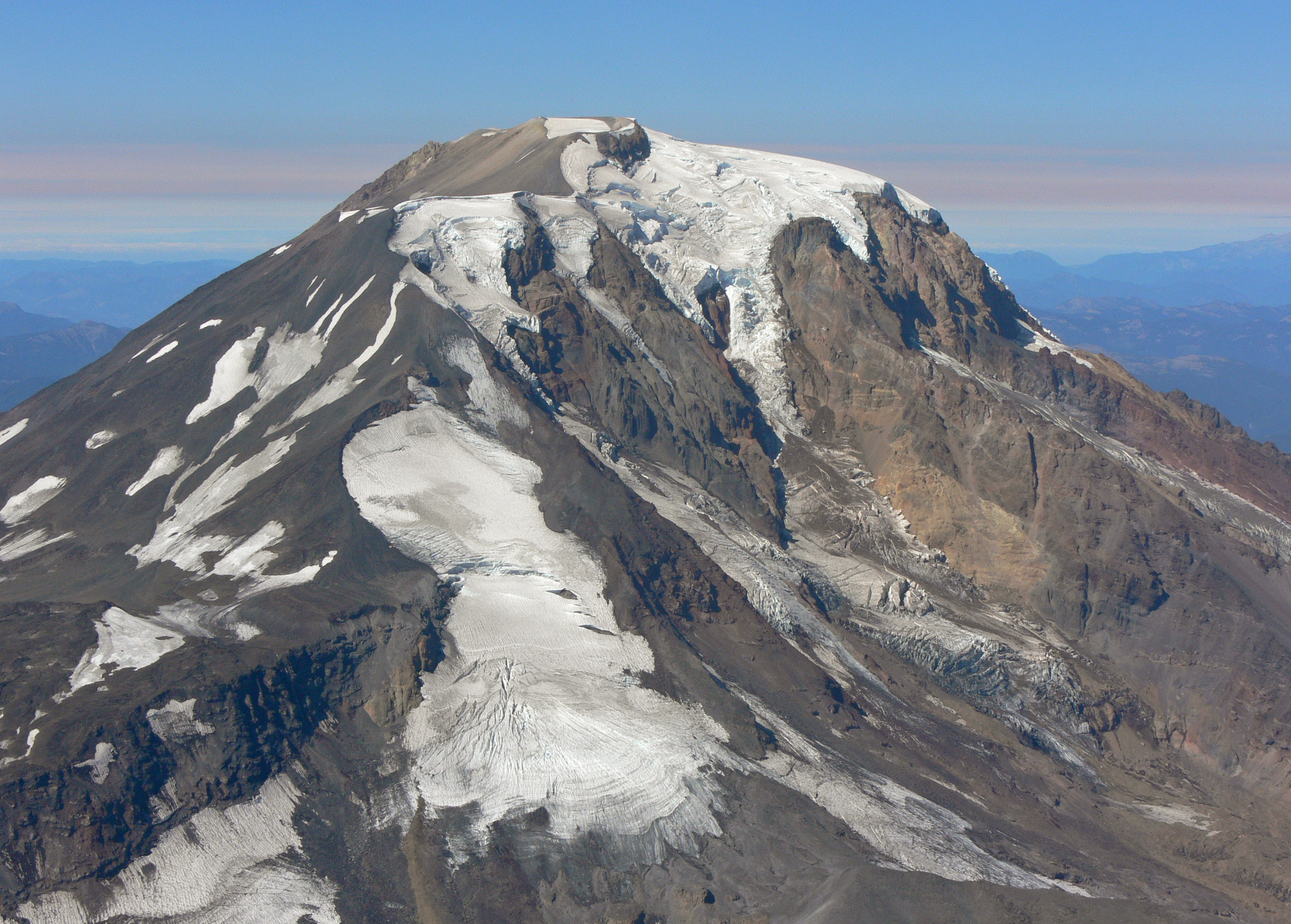 Mount Adams (Washington) from the southeast; summit, left center skyline; Pikers Peak, below left; two branches of Klickitat Glacier separated by the east face of Pikers Peak, one branch descends from summit ice cap, the other from the Pikers Peak ice cap; Battlement Ridge is beyond Klickitat Glacier and descends eastward (right) from summit ice cap; Rusk Glacier is just visible above Battlement Ridge descending from Roosevelt Cliff; Sunrise Camp (not visible) is near the high point of the moraine in the lower right.